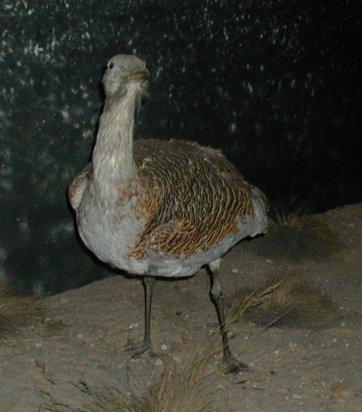 Great Bustard.